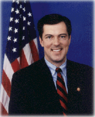 Portrait of Jon Christensen, former Congressman from Nebraska.